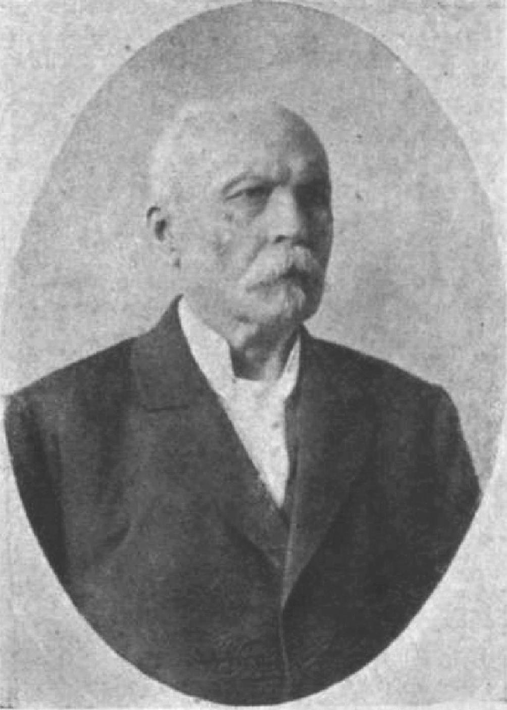 Lehel Odry when he was 80 years old